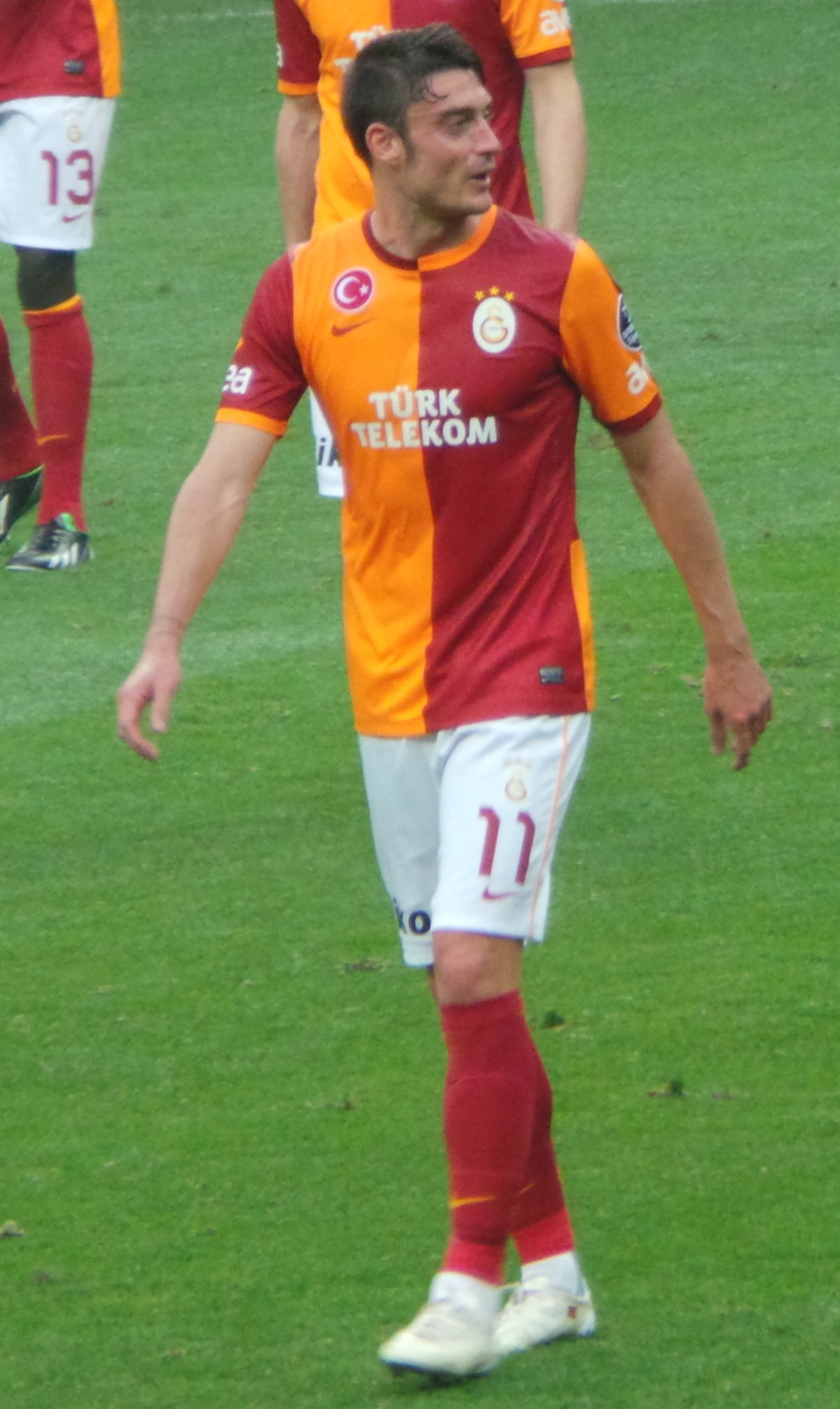 Riera with GS